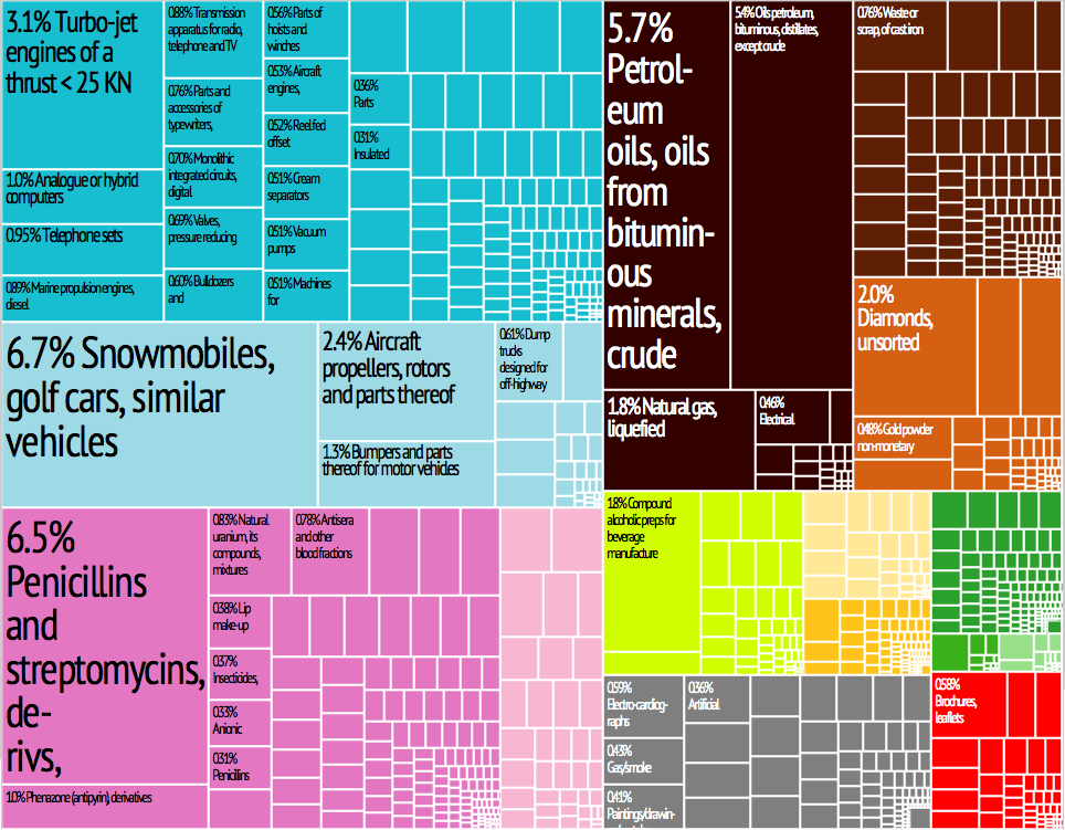 United Kingdom Export Treemap from MIT Harvard Economic Complexity Observatory